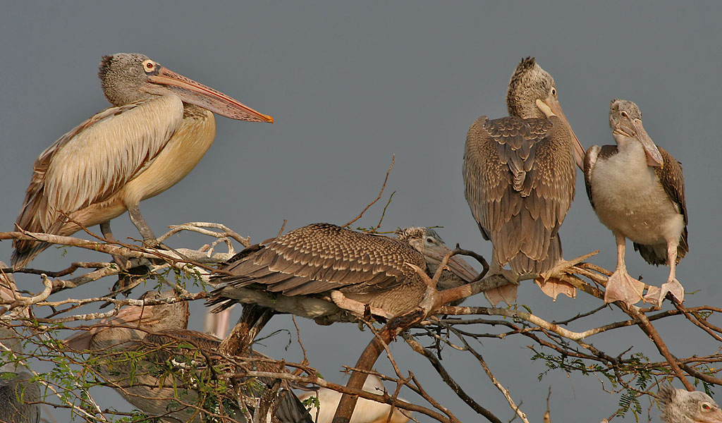 Spot-billed Pelican Pelecanus philippensis at Garapadu, Andhra Pradesh, India.